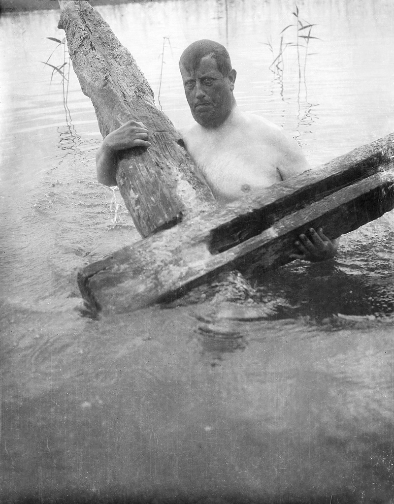 The geologist Lennart von Post collecting building timber from the fortress of "Bulverket" in Tingstäde Marsh on the island of Gotland, at the examination in 1927. The wooden fortress was built on piles, possibly in the 1130s. Geologen Lennart von Post tar upp byggnadsvirke från fästningen Bulverket i Tingstäde träsk, vid undersökningen 1927. Träfästningen byggdes på pålar, möjligen på 1130-talet. Parish (socken): Tingstäde Province (landskap): Gotland Municipality (kommun): Gotland County (län): Gotland Photograph by: Ture J. Arne Date: 1927 Format: Glass plate negative Persistent URL: Read more about the photo database (in english)